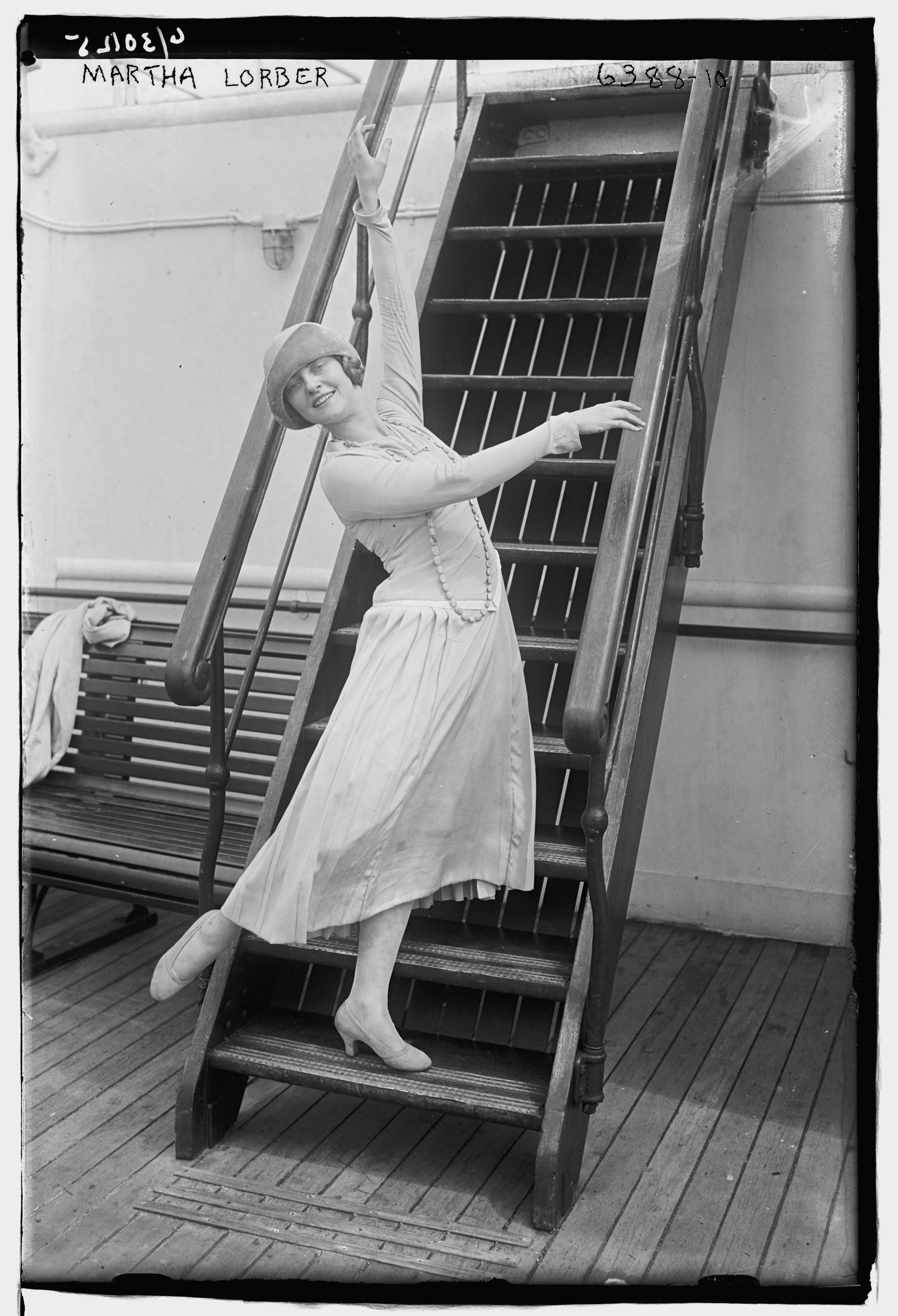 Title: Martha Lorber Abstract/medium: 1 negative : glass ; 5 x 7 in. or smaller.